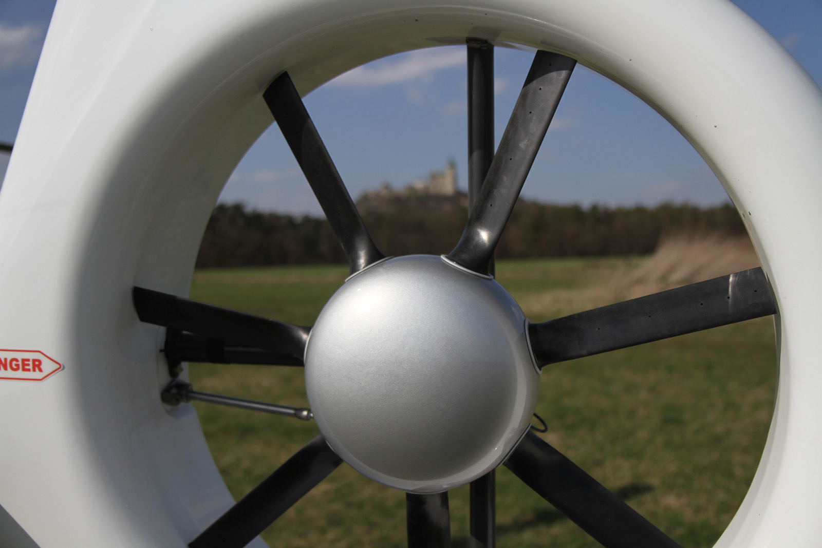 Fenestron on helicopter Guimbal Cabri G2 - Tail number OK-CAB, S/N 1032